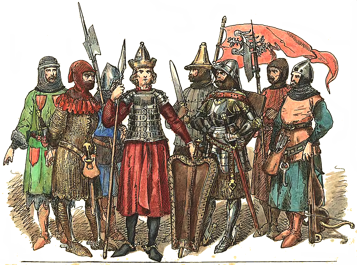 Polish Knights 1333-1434